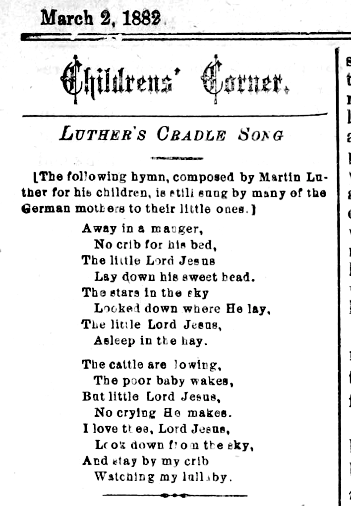 Early publication of the first two verses of "Away in a Manger" from the "Christian Cynosure" newspaper of March 2nd 1882.